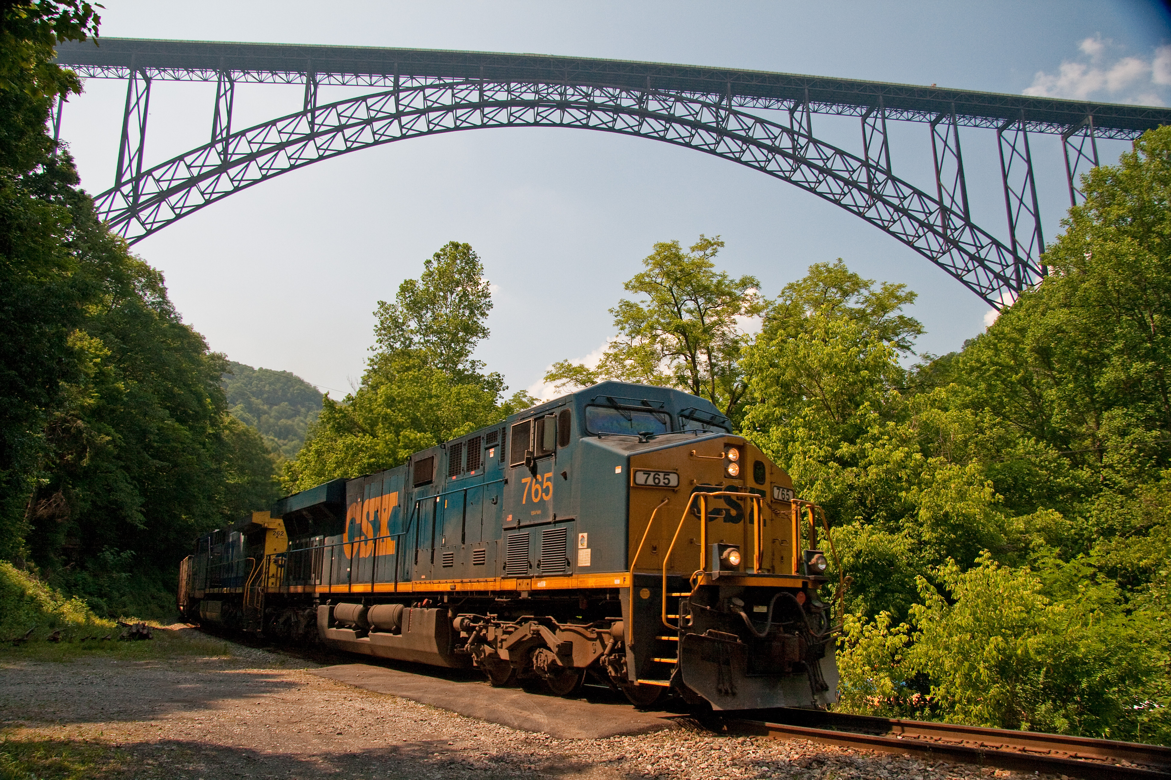 A long CSX train of loaded coal hoppers heads east under the New River Bridge in WV.